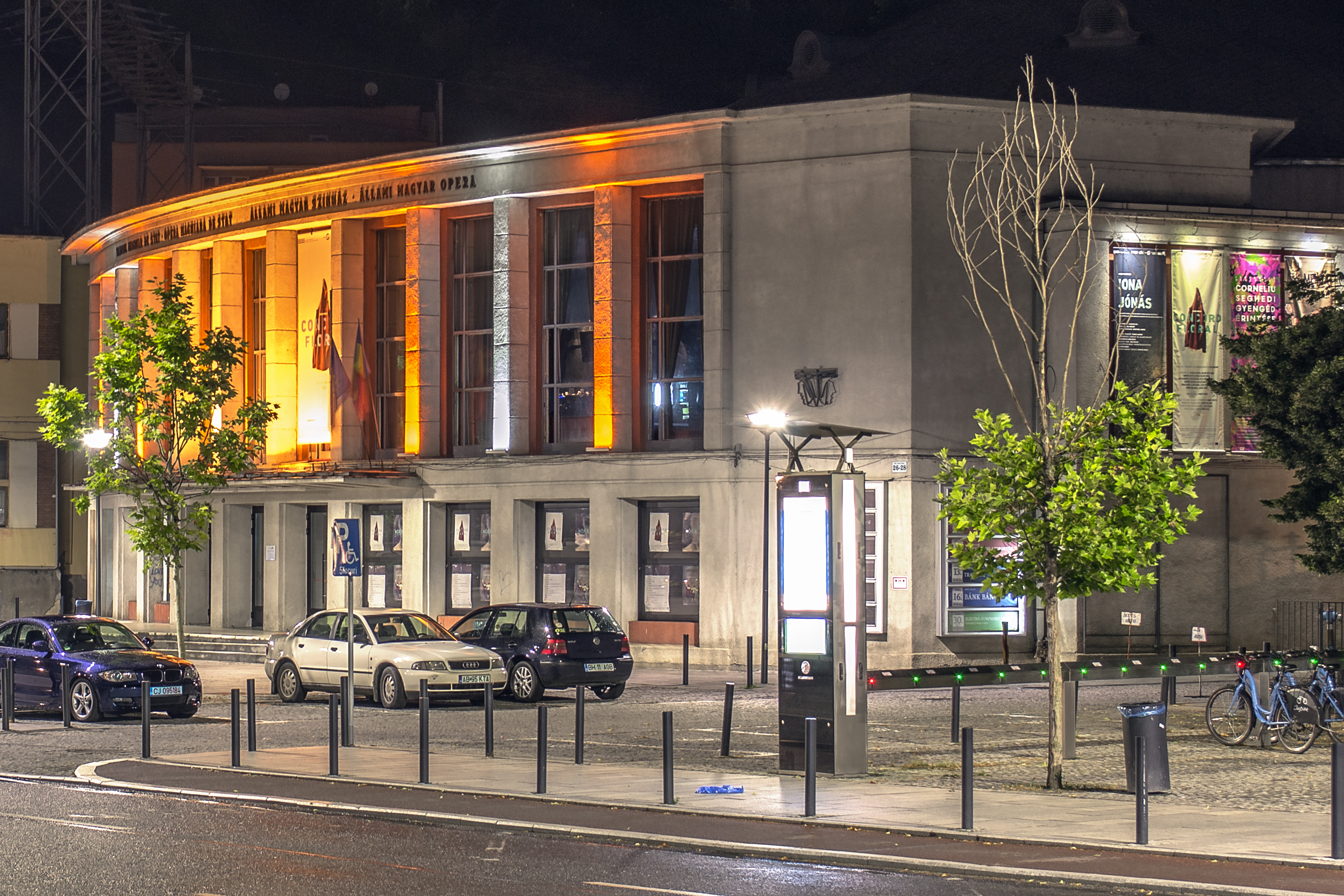 Building of Hungarian Opera and theater in Cluj Napoca